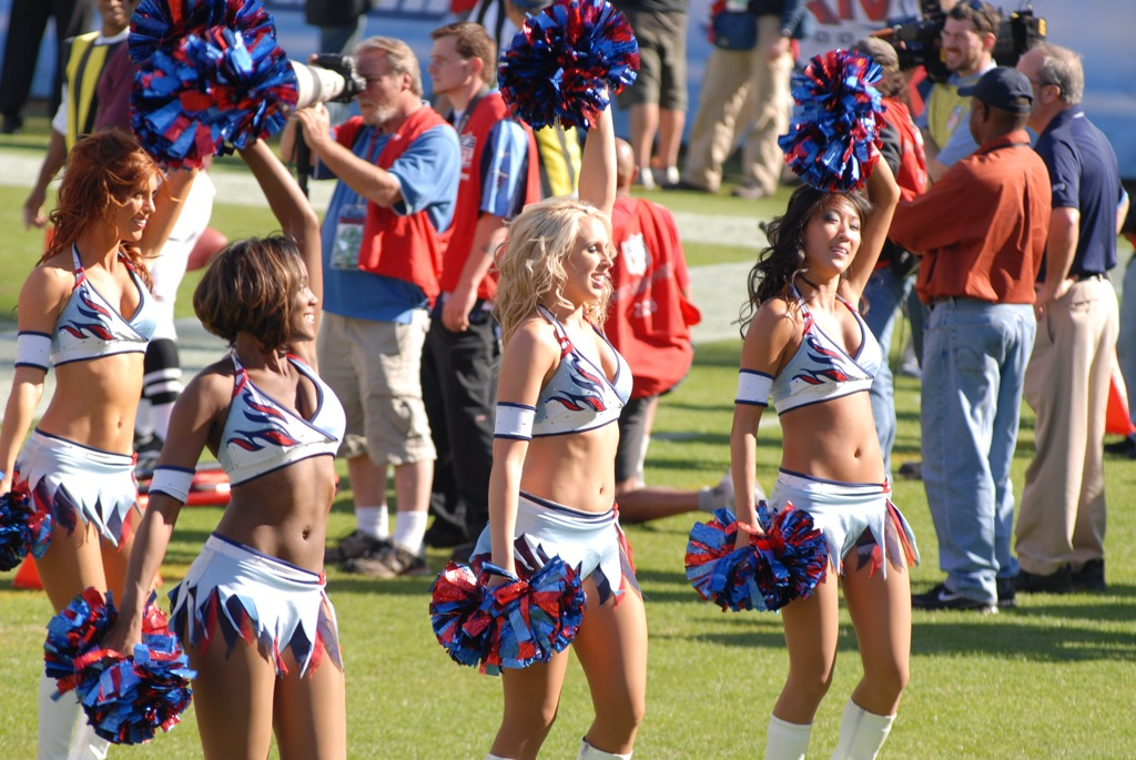 Titans cheerleaders during the Tennessee Titans game on November 2, 2008 at LP Field.